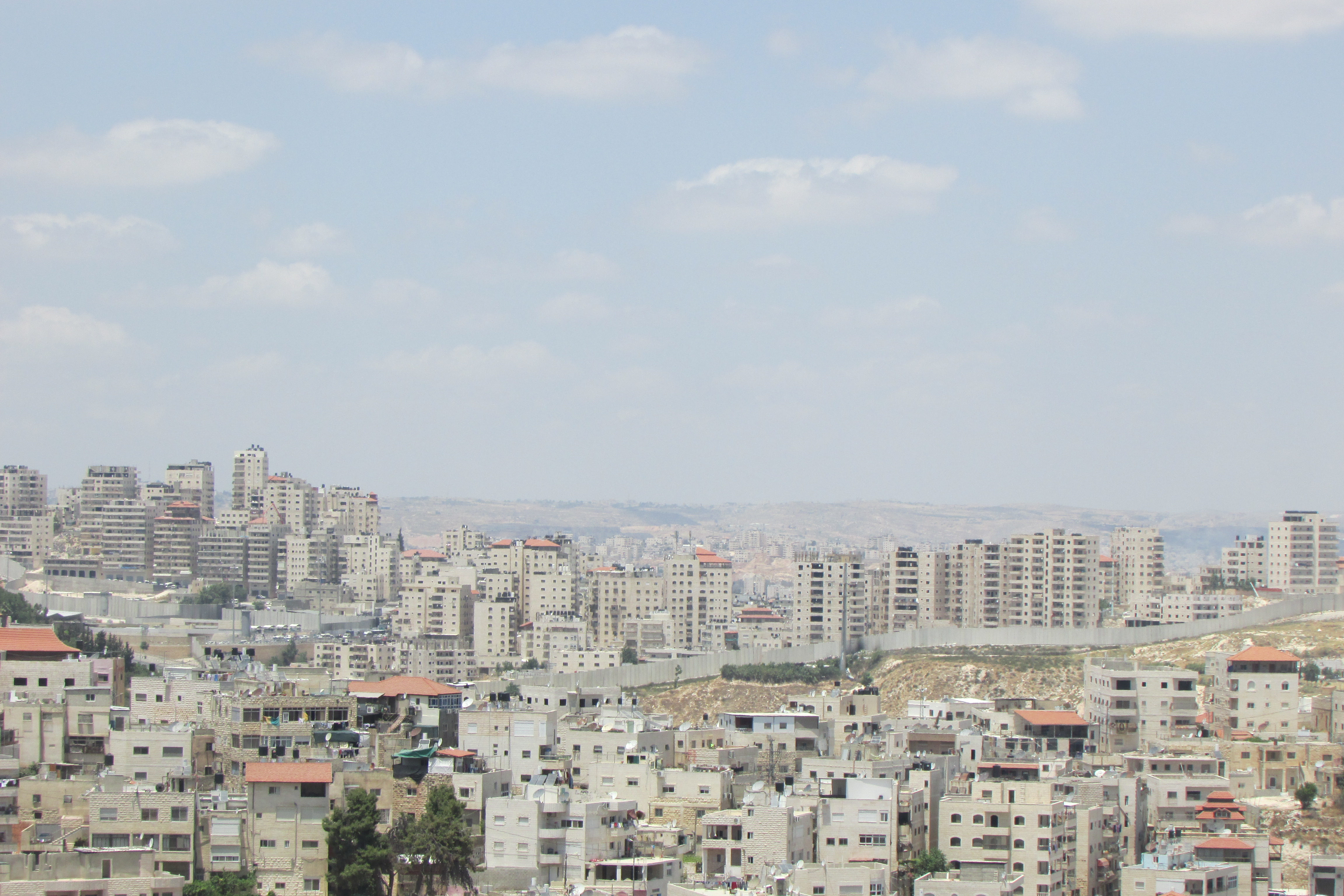 The closer houses are Issawiya. The houses behind the wall are Shu'fat camp. The picture was taken from Mount Scopus.